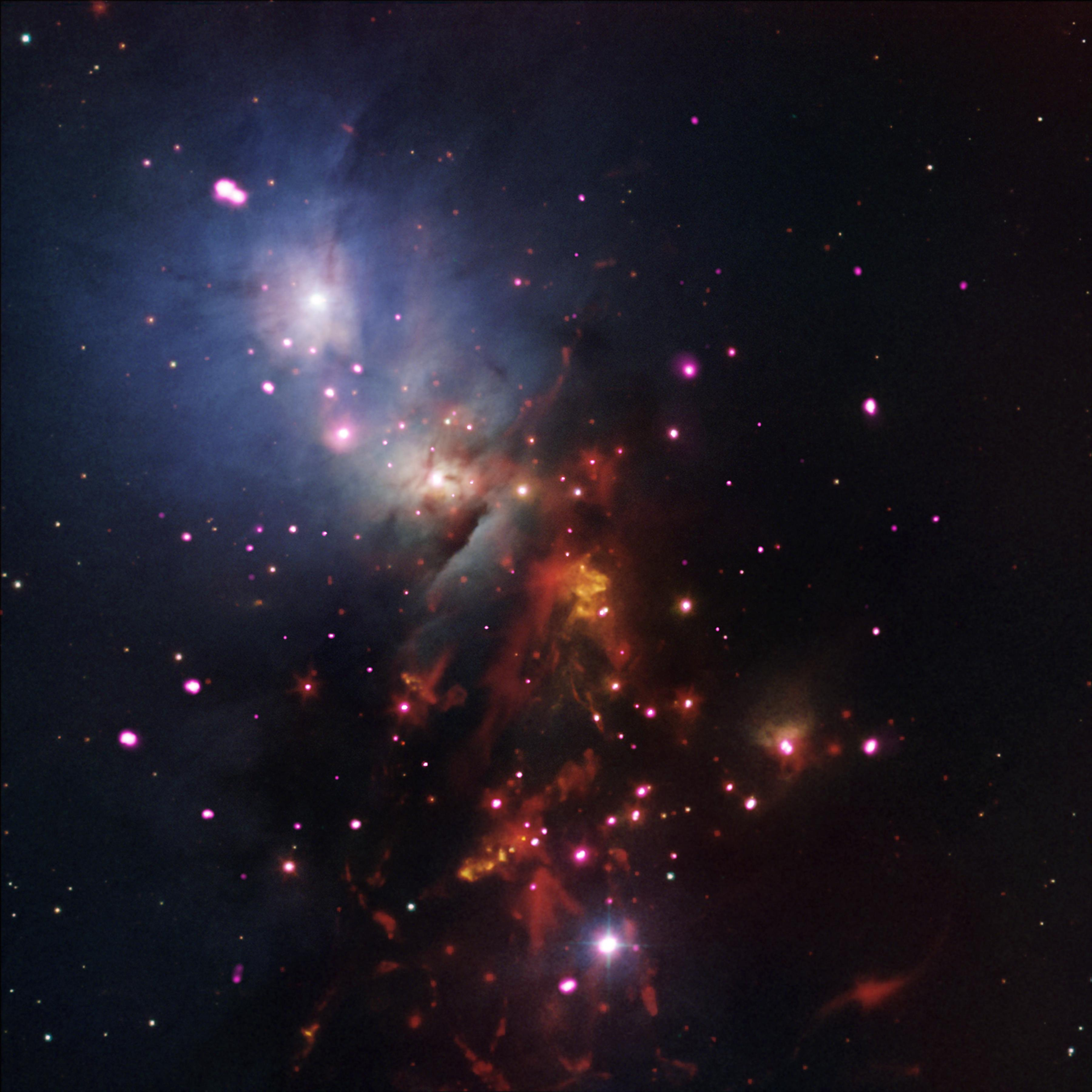 PIA19347: Cosmic Sparklers This new composite image of stellar cluster NGC 1333 combines X-rays from NASA's Chandra X-ray Observatory (pink); infrared data from NASA's Spitzer Space Telescope (red); and optical data from the Digitized Sky Survey and the National Optical Astronomical Observatories' Mayall 4-meter telescope on Kitt Peak near Tucson, Arizona. The Chandra data reveal 95 young stars glowing in X-ray light, 41 of which had not been seen previously using Spitzer because they lacked infrared emission from a surrounding disk. NASA's Jet Propulsion Laboratory in Pasadena, California, manages the Spitzer Space Telescope mission for NASA's Science Mission Directorate, Washington. Science operations are conducted at the Spitzer Science Center at the California Institute of Technology in Pasadena. Science operations are conducted at the Spitzer Science Center at the California Institute of Technology in Pasadena. Spacecraft operations are based at Lockheed Martin Space Systems Company, Littleton, Colorado. Data are archived at the Infrared Science Archive housed at the Infrared Processing and Analysis Center at Caltech. Caltech manages JPL for NASA. For more information about Spitzer, visit and